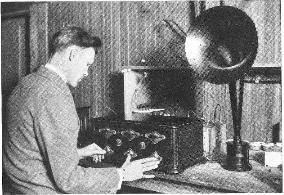 A man tuning a Grebe Synchrophase vacuum tube radio receiver in 1925, made by the A. H. Grebe Co. This type of radio, called a tuned radio frequency (TRF) receiver, was popular during the 1920s. It had several stages of amplification, each with a tuned circuit which had to be tuned to the desired radio station with a knob on the front panel connected to a variable capacitor inside. Tuning a TRF receiver to a new station was difficult because all the knobs had to be tuned to the correct point before the station could be heard. The knobs were not marked with frequency, due to large frequency drift of tube receiver. So all the knobs had to be rotated in unison to keep the receiver in tune. This receiver had 3 tuned stages. In order to make the process easier, the controls are thumbwheels instead of ordinary knobs, which can each be rotated with a finger. This picture shows the tuning technique; the operator is turning all 3 thumbwheels simultaneously, Once a station is found, the index numbers on the dials above the wheels are written down so that henceforth the dials can individually be turned directly to the station without this elaborate procedure. The radio's speaker (right) is a large horn loudspeaker as modern cone speakers were not prevalent. The radio is powered by a square 45 V "B" battery, visible behind the cabinet. Caption: "TWO HANDED OPERATION OF THE THREE TUNINC CONTROLS - Here the operator demonstrates the method of tuning the three dials simultaneously, thus eliminating the necessity for a third hand"